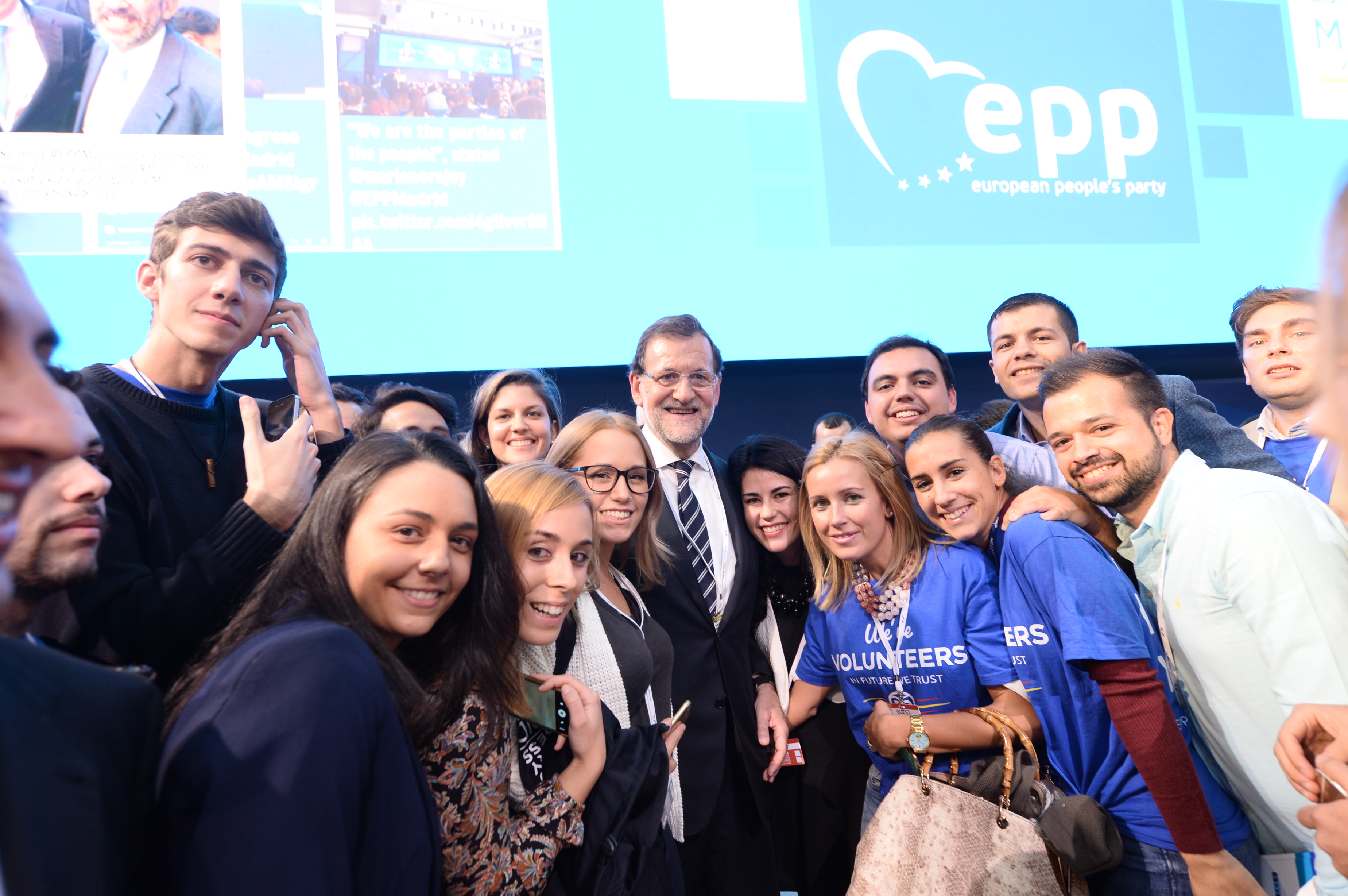 EPP Congress Madrid - 22 October